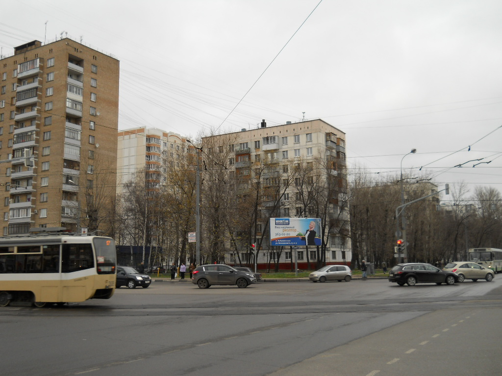 Polyarnaya street 2, corner with Dezhnev Lane, Moscow, Russia.